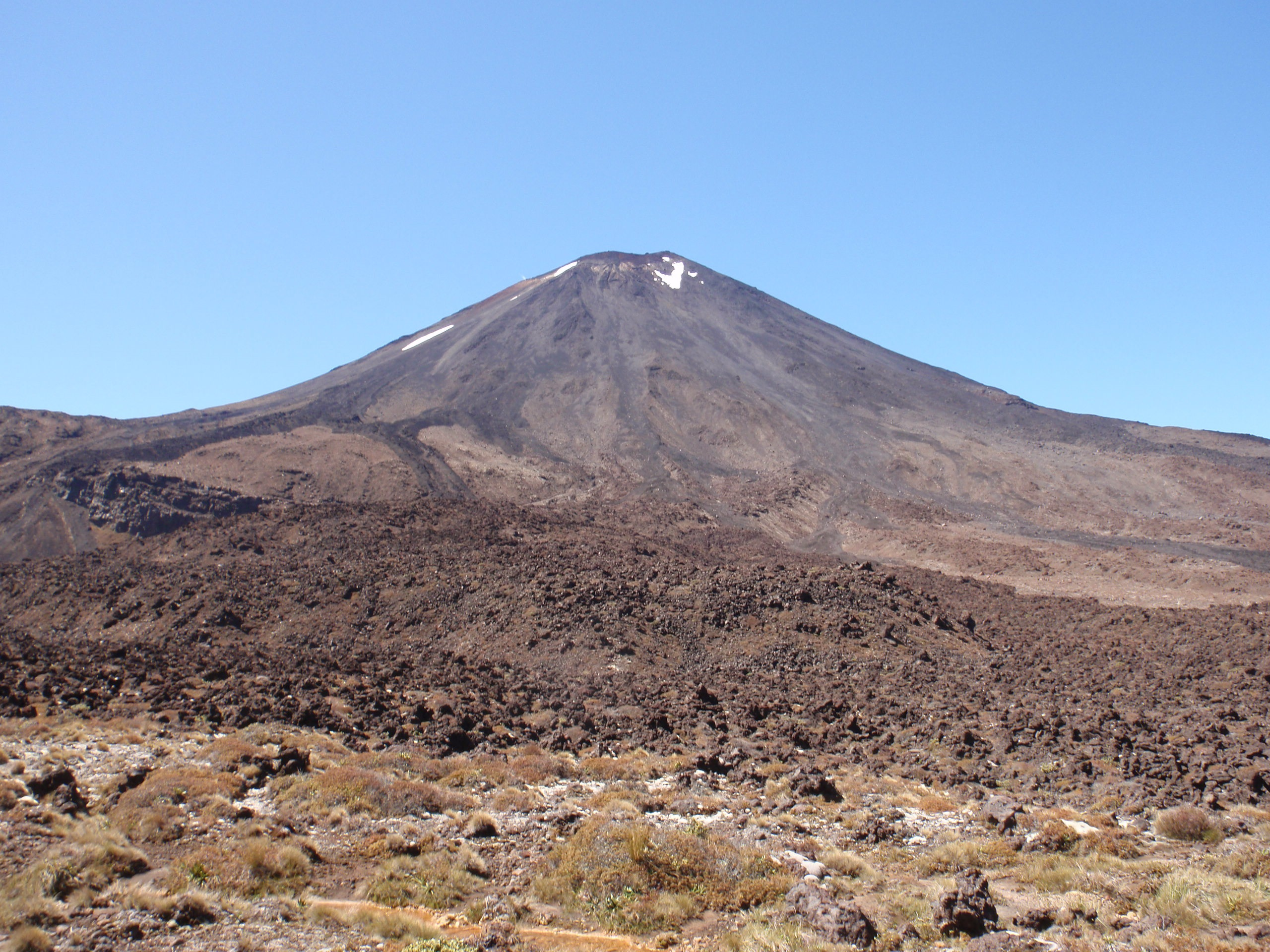 Mount Ngauruhoe in 2010